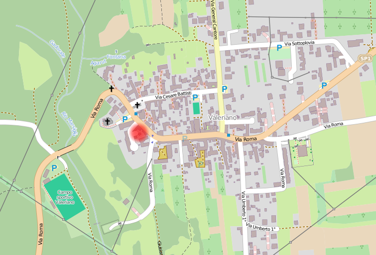 Location of the ancient curtain in Valeriano, Pinzano al T. PN Italy (according to Manlio Scatton).